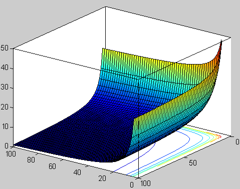 Beta function on real plane